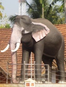 Ampalapuzha Ramachandran